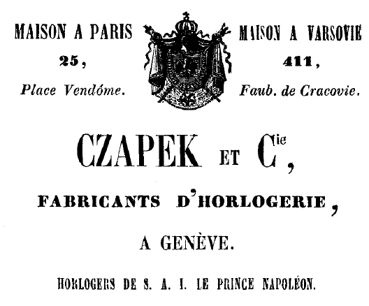 Ad 1850 Czapek & Cie, Fournisseur de S.A.I. Napoléon III